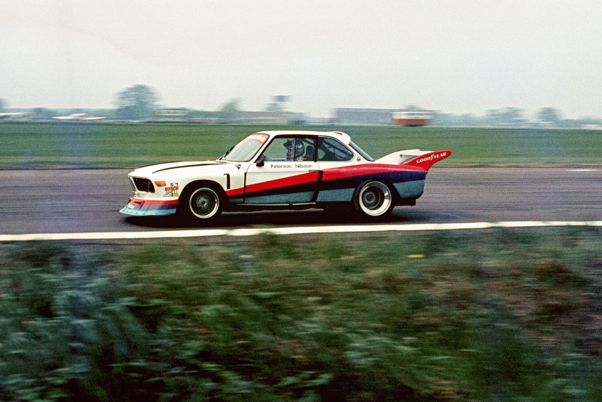 Drivers Ronnie Peterson and Gunnar Nilsson , BMW Motorsport GmbH (D). The World Championship For Manufacturers 6 Hours Silverstone (1976)